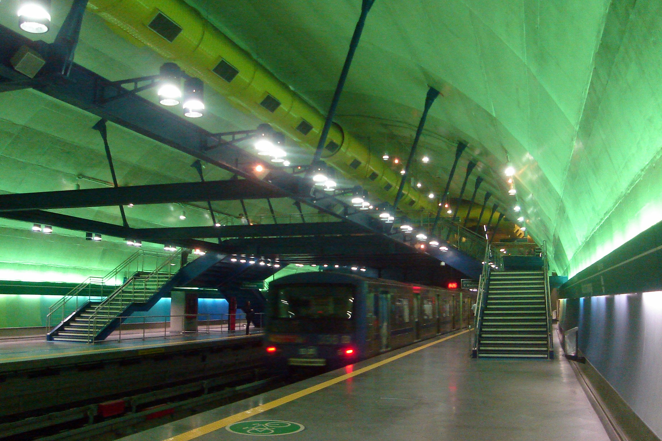 Interior of metro station Alto do Ipiranga, São Paulo, Brazil. Details: Estação Alto do Ipiranga